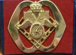 Beret badge Service and transport Corps (red/blue)